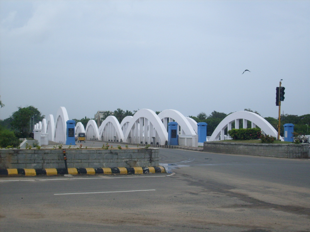 Napier Bridge in Chennai